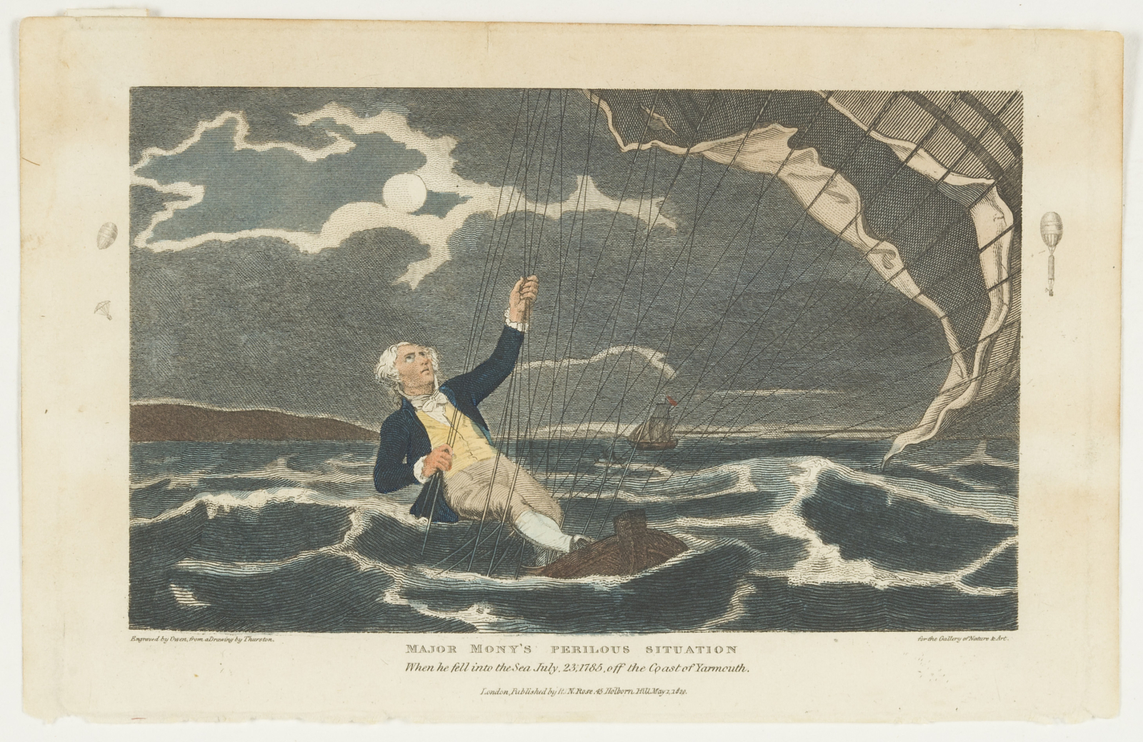 Major Mony's Perilous Situation When he fell into the Sea July, 23, 1785, off the Coast of Yarmouth. Colored etching of Major John Money (1752-1817) standing on his submerged gondola and holding on to the a balloon as he is dragged over the surface of the sea. His name is mispelled in the title printed below the image. On the afternoon of July 22, 1785, Major John Money, on half-pay form the 15th Light Dragoons, took off from the Ranleigh Gardens, Norwich, to raise money for the Norfolk and Norwich Hospital. A skilled horseman, he had made only one previous ascent from London in the British Balloon. By 6pm on the evening of the launch, he was seen crossing Lowestoft, unable to descend and heading out over the North Sea. The balloon descended as the air cooled, depositing Money in the water on the Long Shoals, a dangerous area for ships. He abandoned his basket and climbed onto the load ring of the balloon, keeping enough hydrogen in the envelope to keep him afloat. He was rescued by the lifesaving vessel Argus, out of Lowestoft, at midnight. He had served under Gen. John Burgoyne, was captured at Saratoga, and spent time as an American POW. Later, during the Napoleonic Wars he was commissioned as Major General serving with the rebel Austrian forces. 'Engraved by Owen, from a Drawing by Thurston, for the Gallery of Nature & Art. London, Published by R.N. Rose, 45 Holborn Hill, May 1, 1820.' Gift of the Norfolk Charitable Trust. Inventory Number: A20140821000